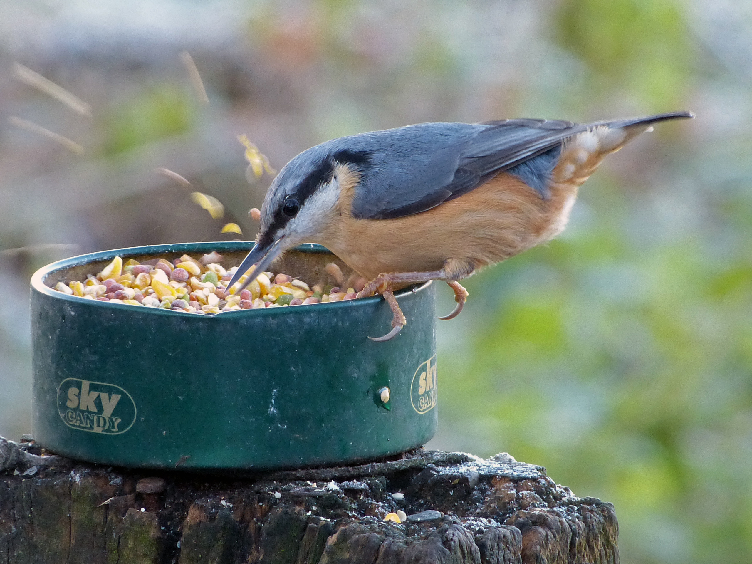 Latin name Sitta europaea Family Nuthatches (Sittidae) Overview The nuthatch is a plump bird about the size of a great tit that resembles a... Where to see them ... When to see them All year round. What they eat Insects, hazel nuts, acorns, beechmast and other nuts and seed.